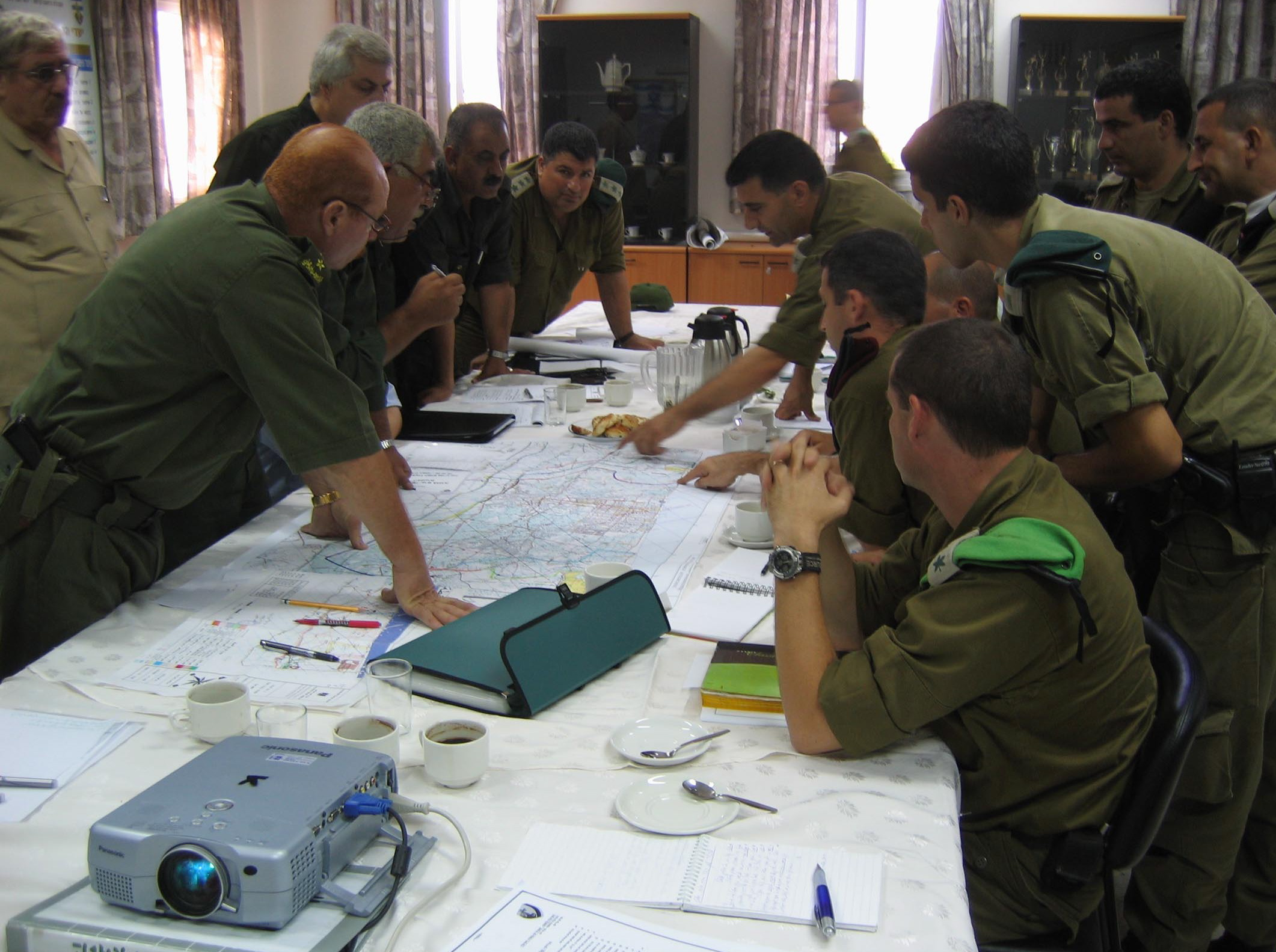 August 1, 2005. Then-Commander of the Gaza Division, Brig. Gen. Aviv Kochavi, meets with his counterpart in the Palestinian forces. Several such meetings were held in order to coordinate the disengagement.